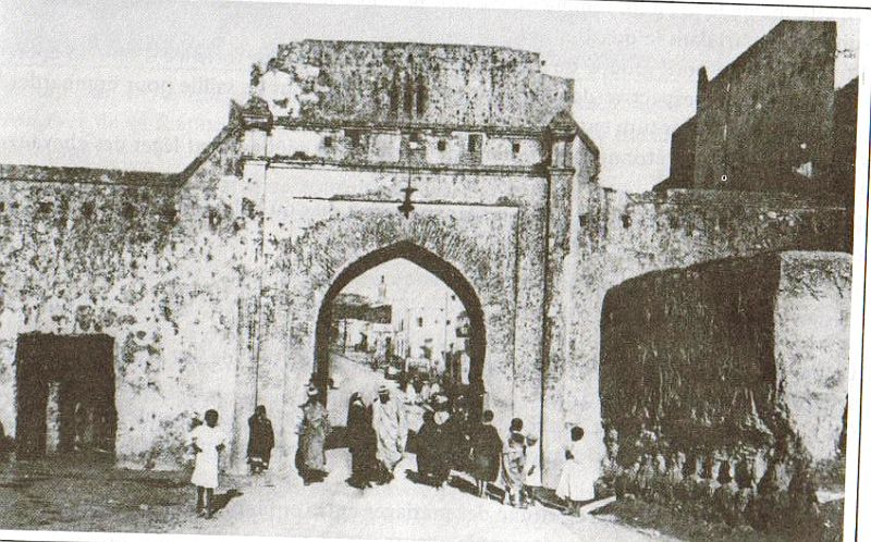 One of the gate of the Mellah (Jewish quarter) of Meknes Morocco